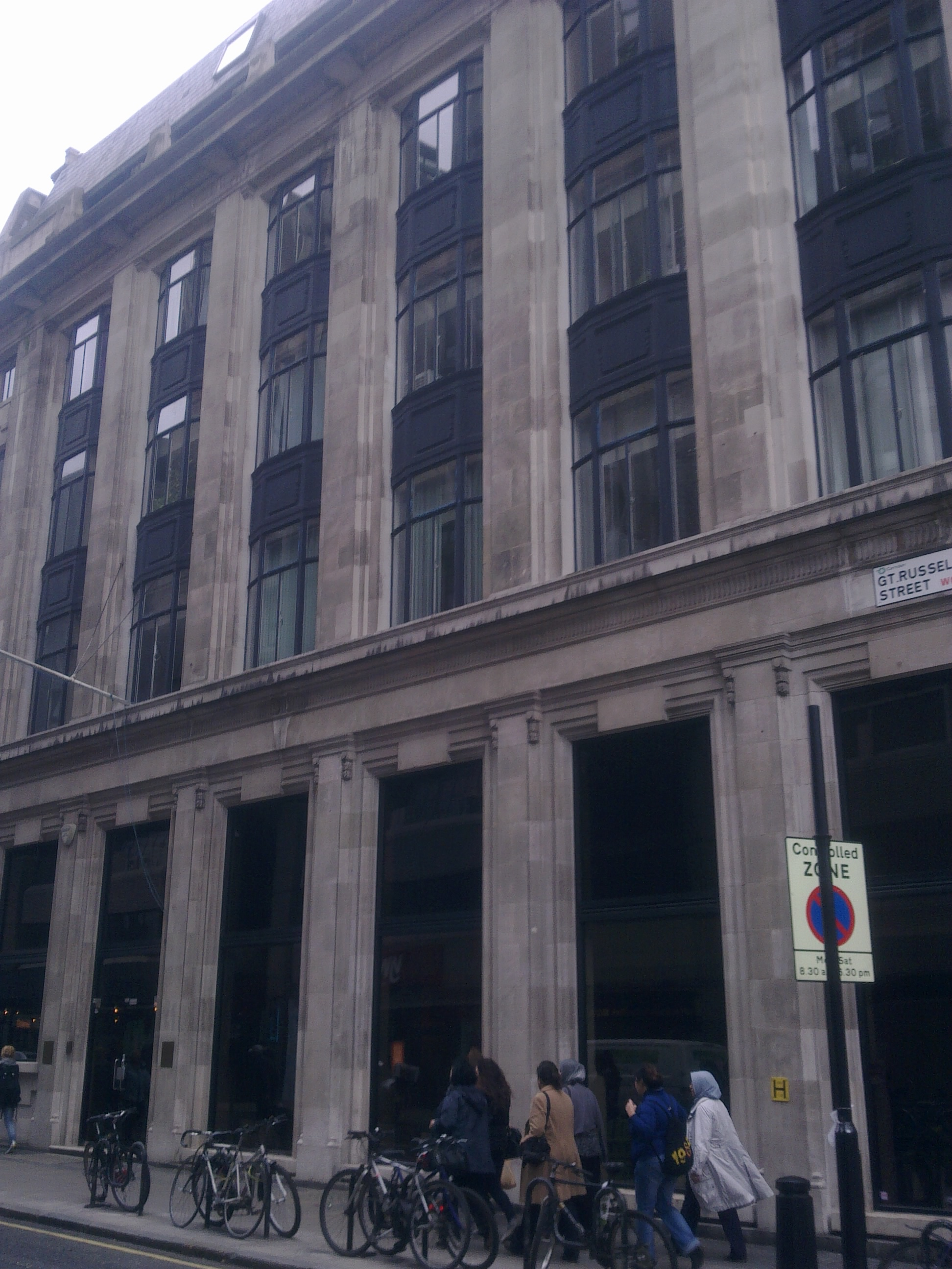 High Commission of Barbados in London 1